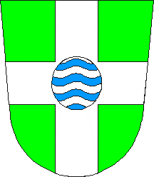 Old coat of arms of Türi Parish (1995–2005).